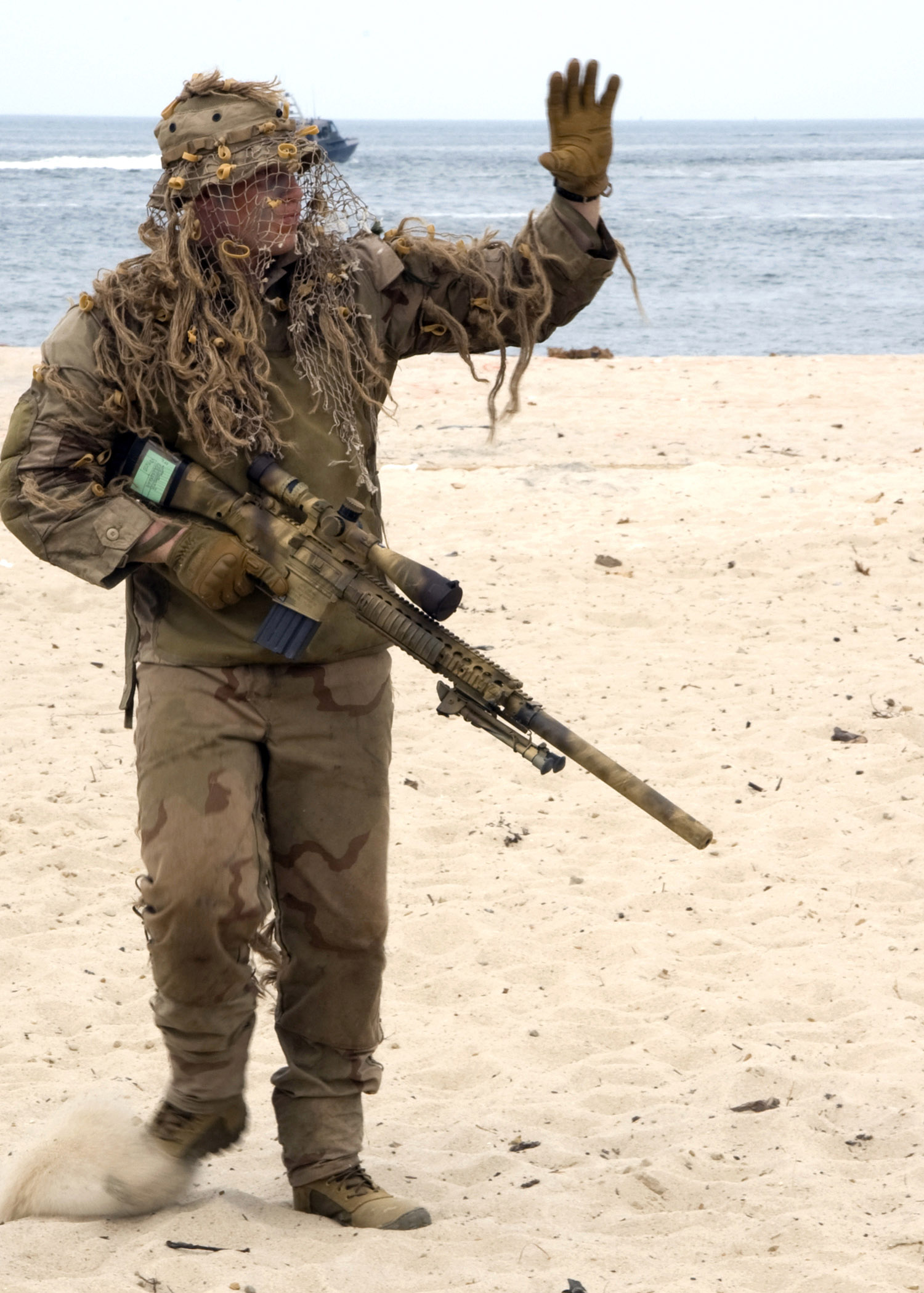 VIRGINIA BEACH, Va. (July 17, 2010) A U.S. Navy SEAL sniper waves to the crowd during a capabilities demonstration at Joint Expeditionary Base Little Creek, Va. The Naval Special Warfare community event was part of the 41st UDT/SEAL East Coast Reunion celebration. (U.S. Navy photo by Chief Mass Communication Specialist Stan Travioli/Released)